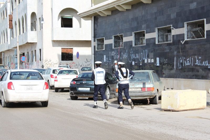 The military and security forces have melted away in Benghazi, but traffic cops still remain on the streets. Their presence is welcomed or, at worst, mocked.